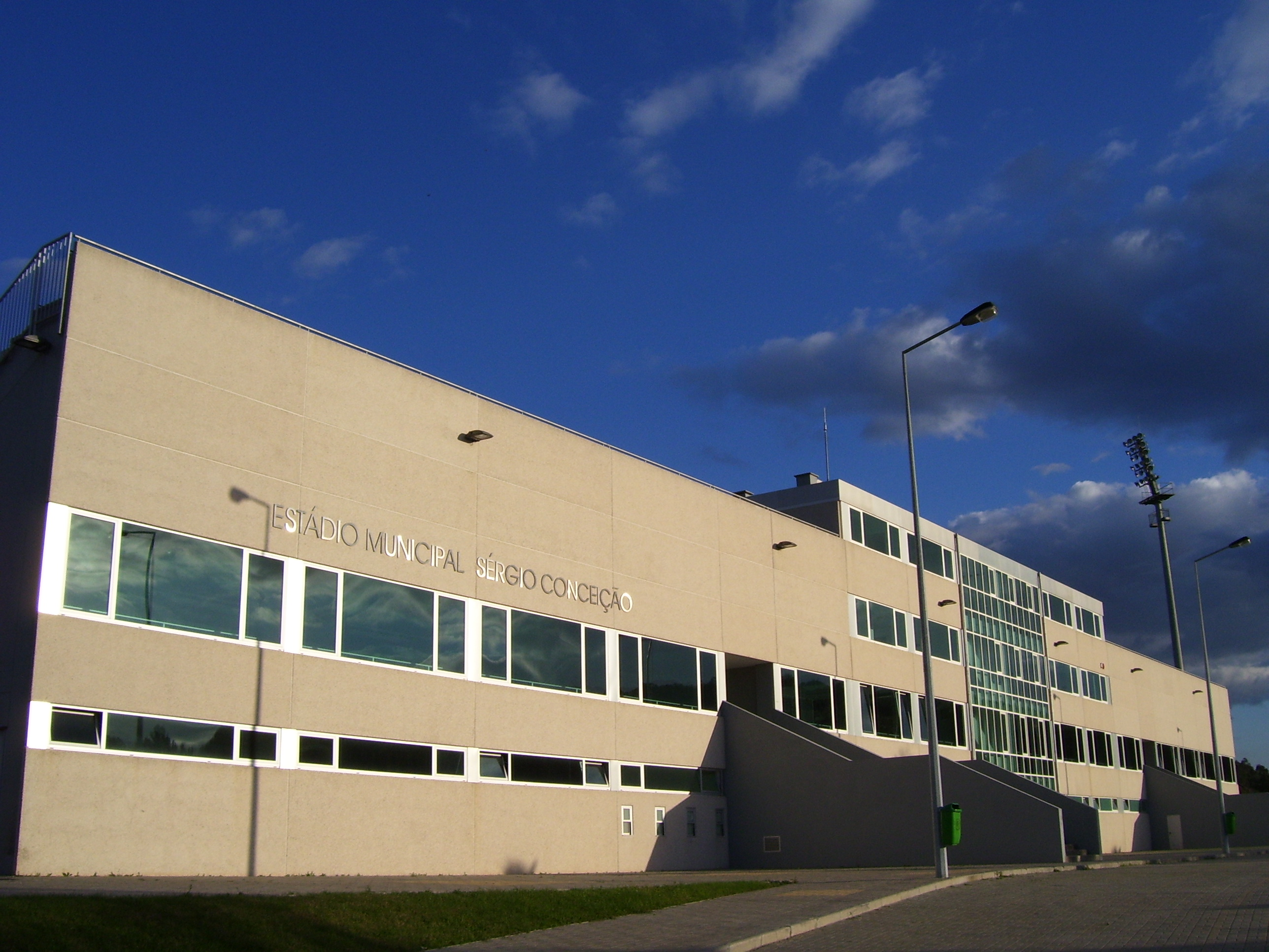 Own work, self made with my camera.